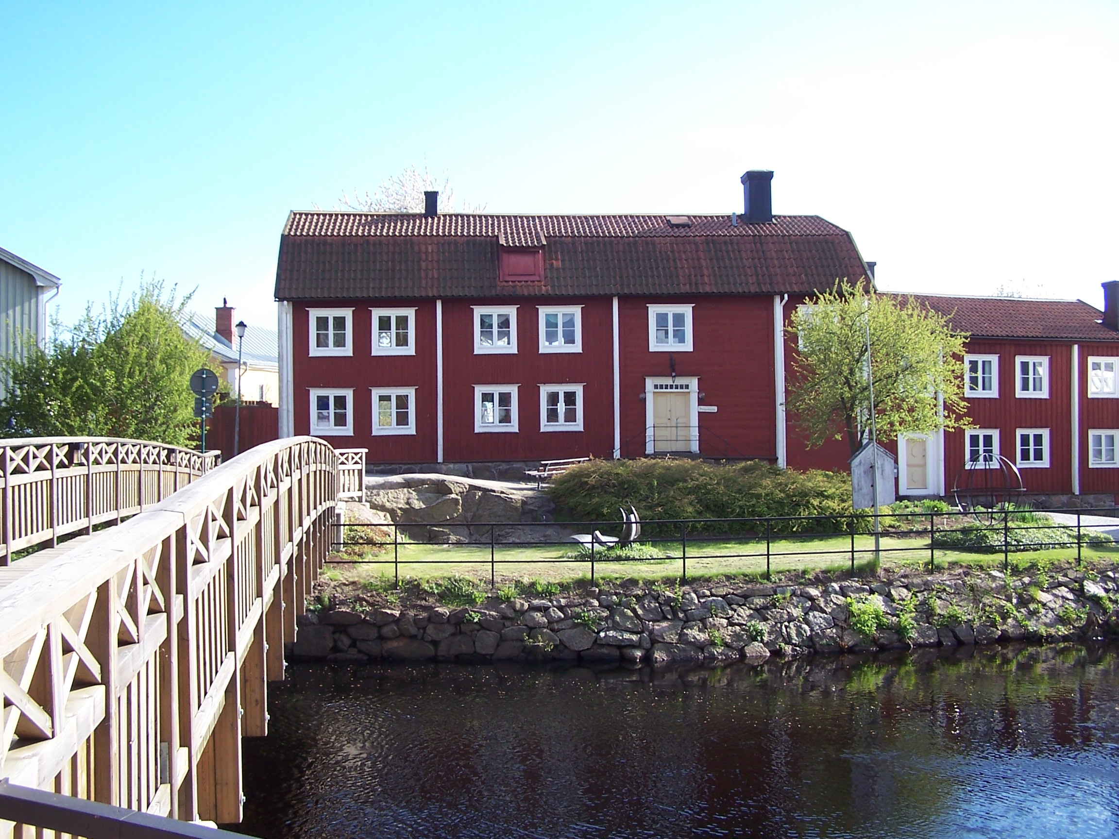 Mor Oliviagården, Ronneby.